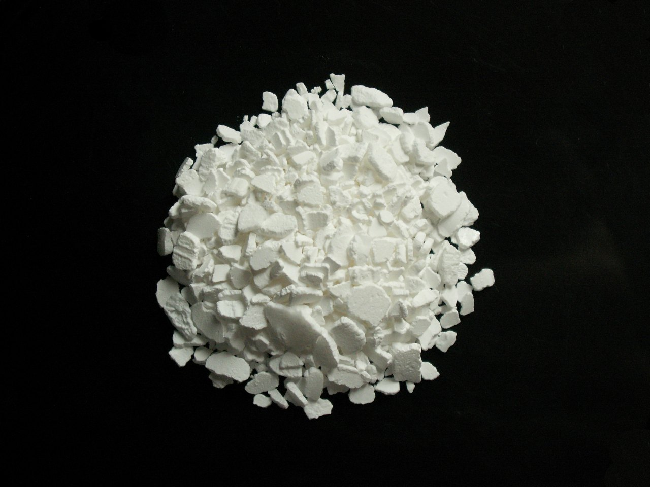 Calcium chloride Photographer: Markus Brunner Date:2005-09-27